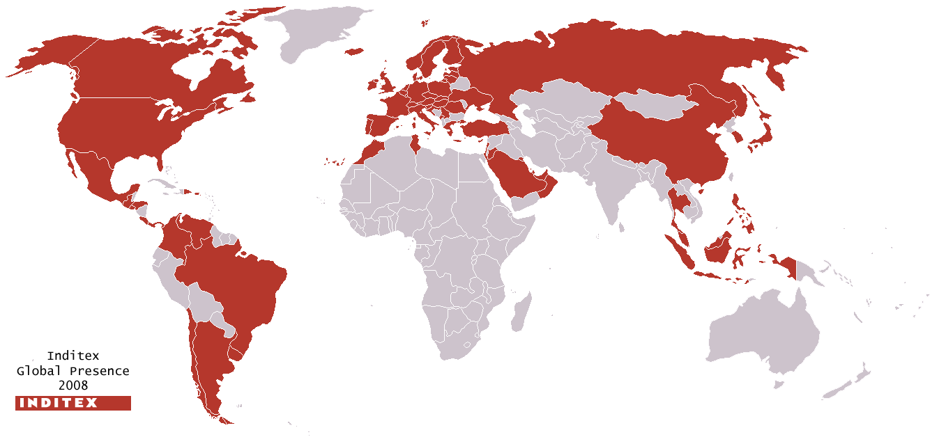 Inditex Global Presence in 2008